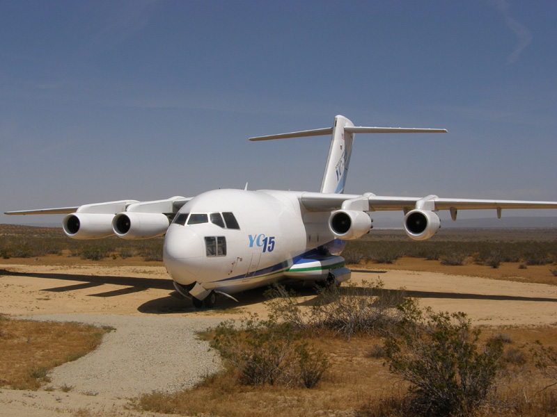 The prototype McDonnell Douglas YC-15 transport on display at Century Circle, Edwards AFB